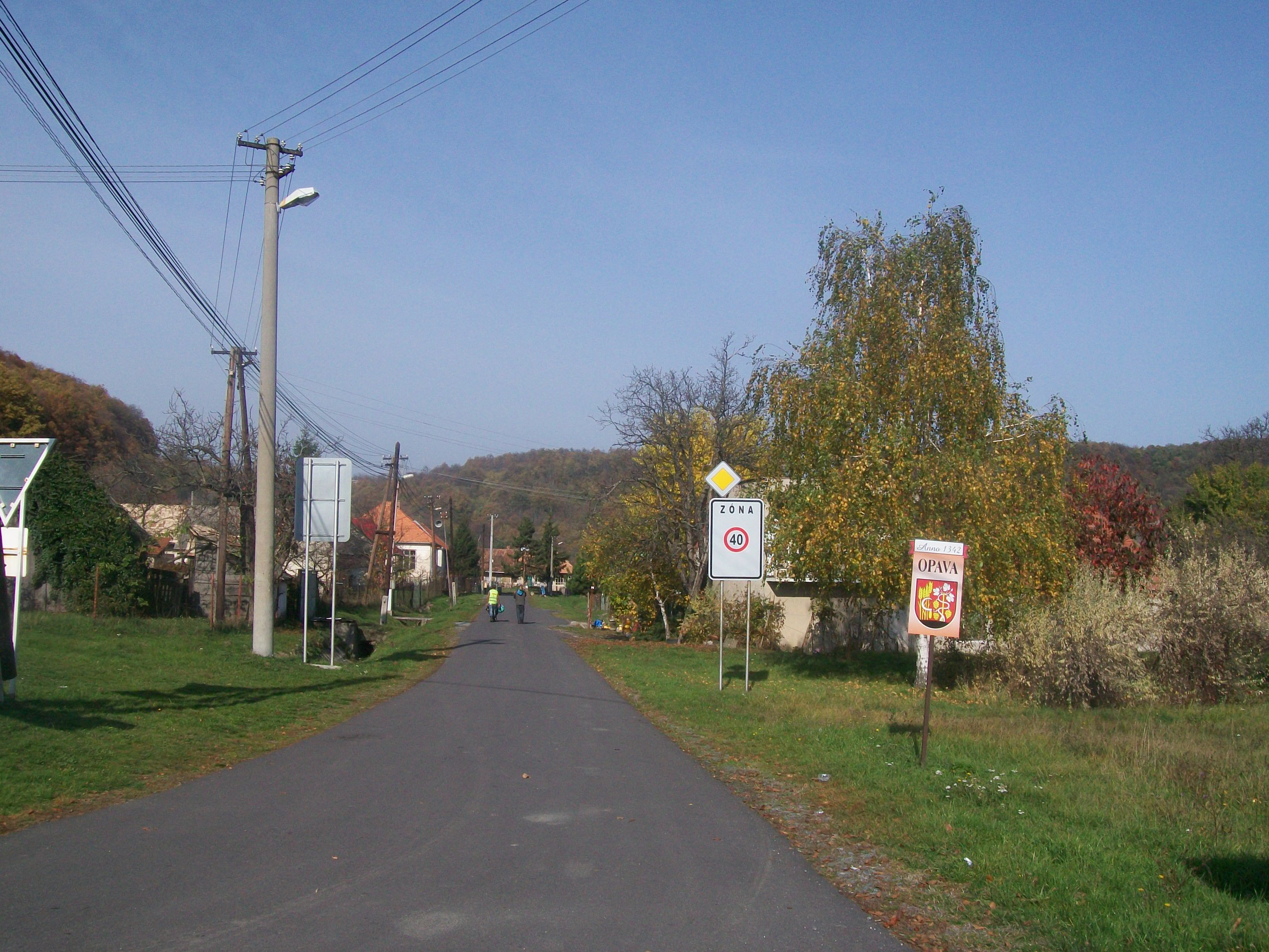 A table with the name of the Opava villageSlovenčina: Tabuľa s názvom obce Opava